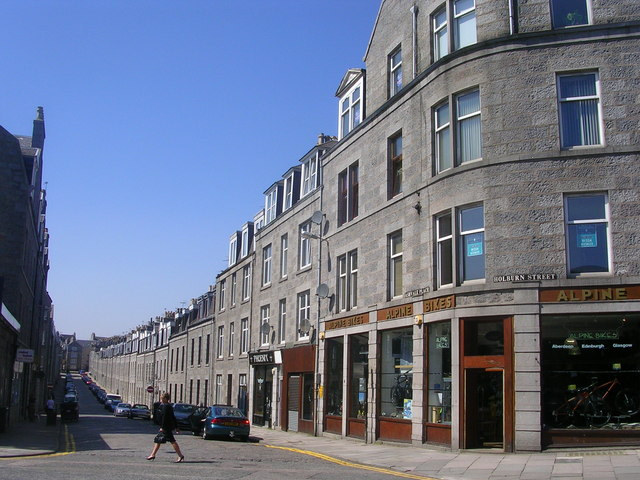 Ashvale Place, Aberdeen. Street of 19th Century granite tenements, located off Holburn Street.